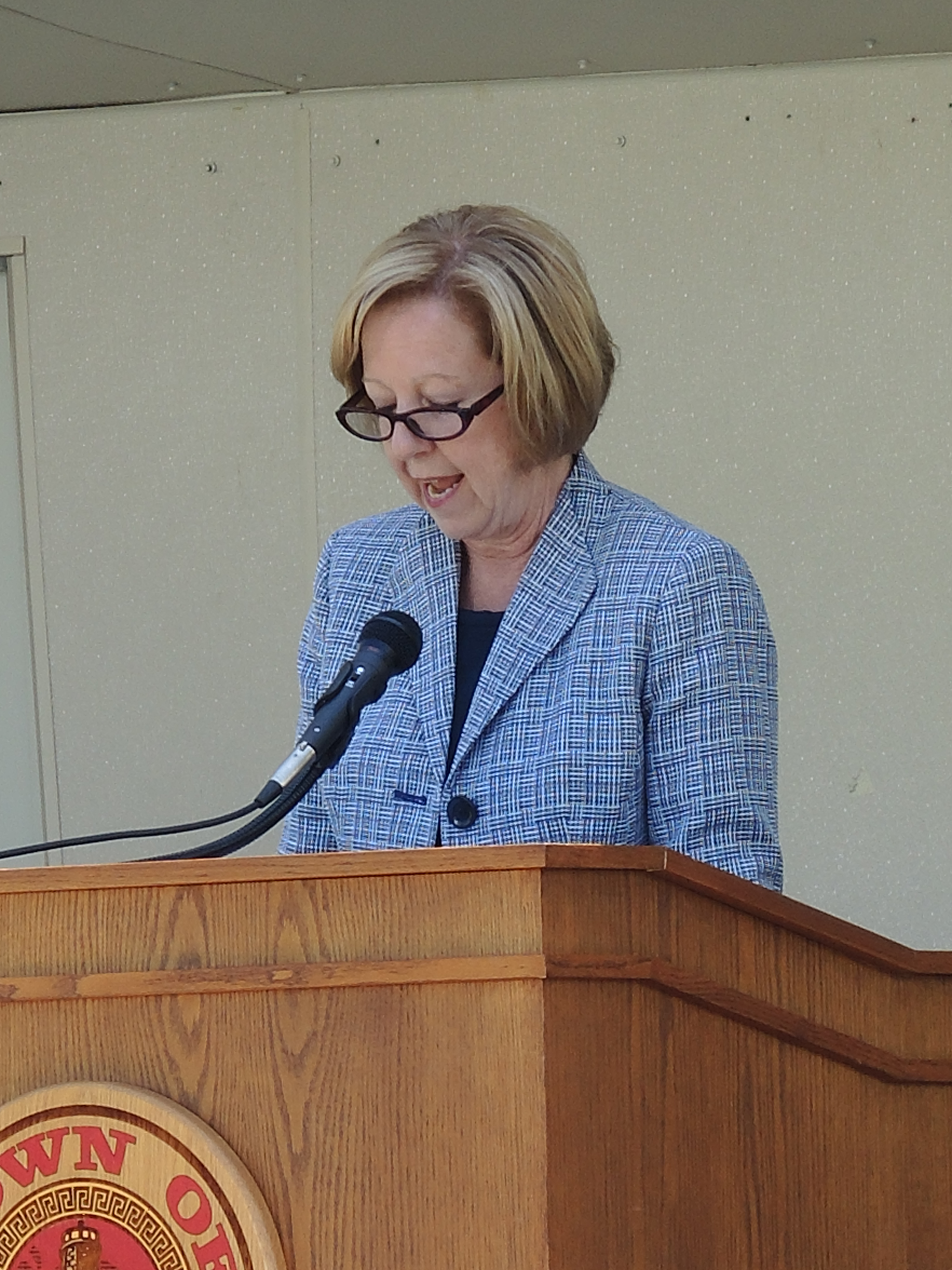 Maggie Brooks speaking at the 2014 Greece, New York Memorial Day ceremony.